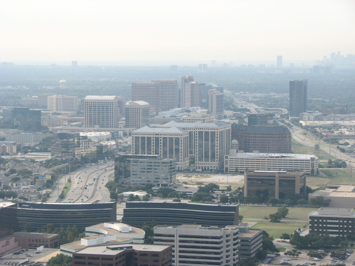 Addison, Texas, skyline